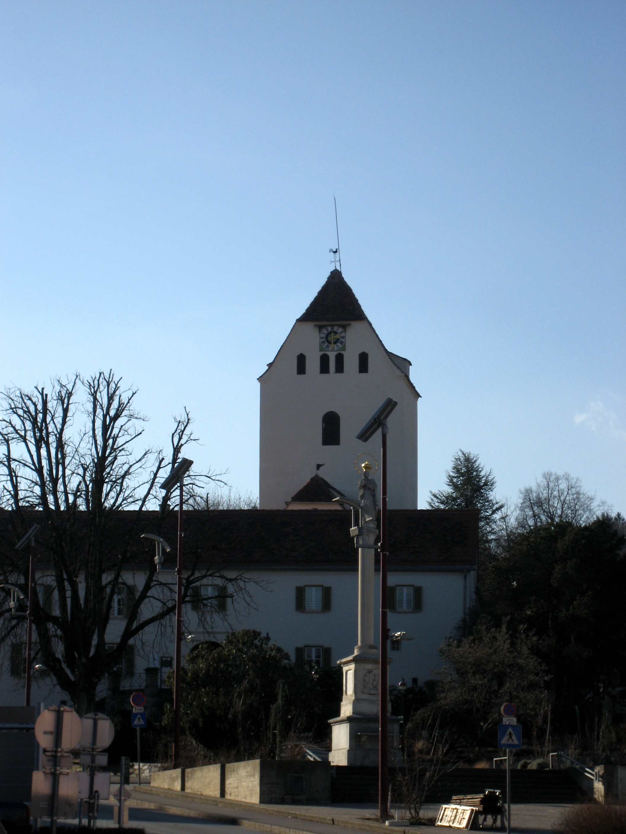 Tabor church in Weiz, Styria, Austria, Europe